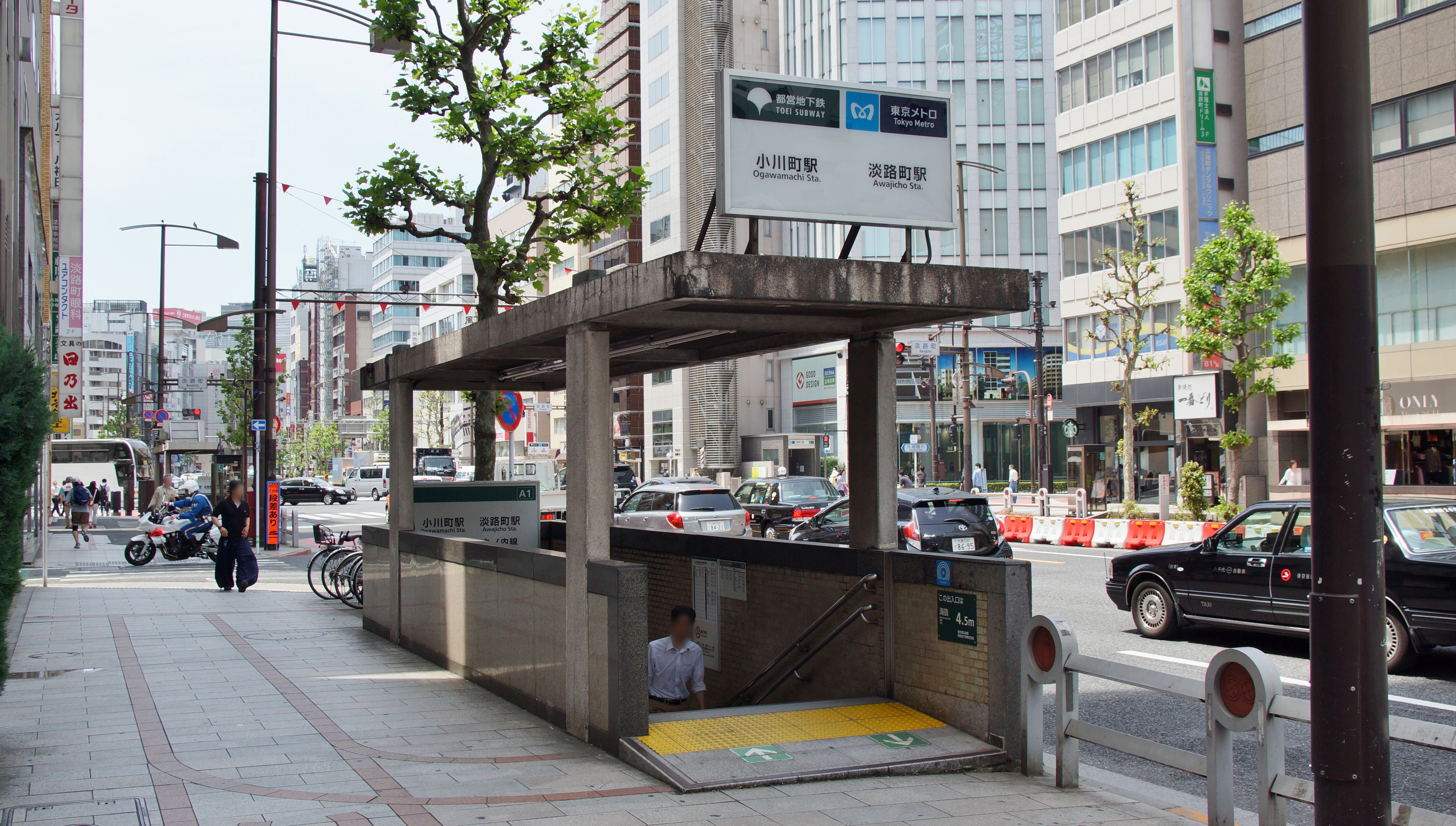 Entrance A1 to Awajicho and Ogawamachi subway stations in Tokyo